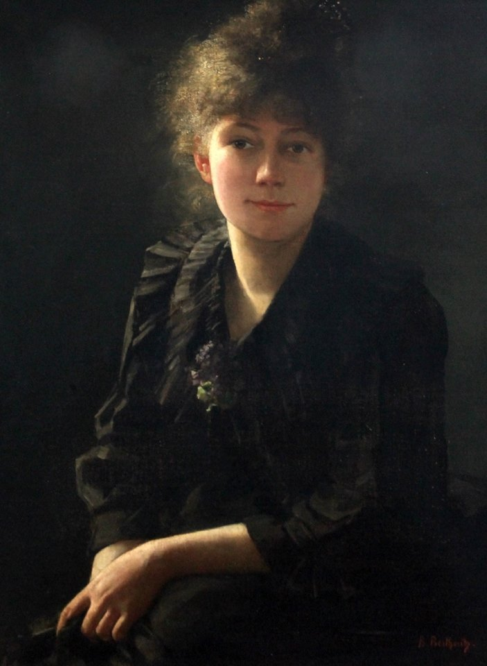 Portrait of a Lady Wearing a Black Dress